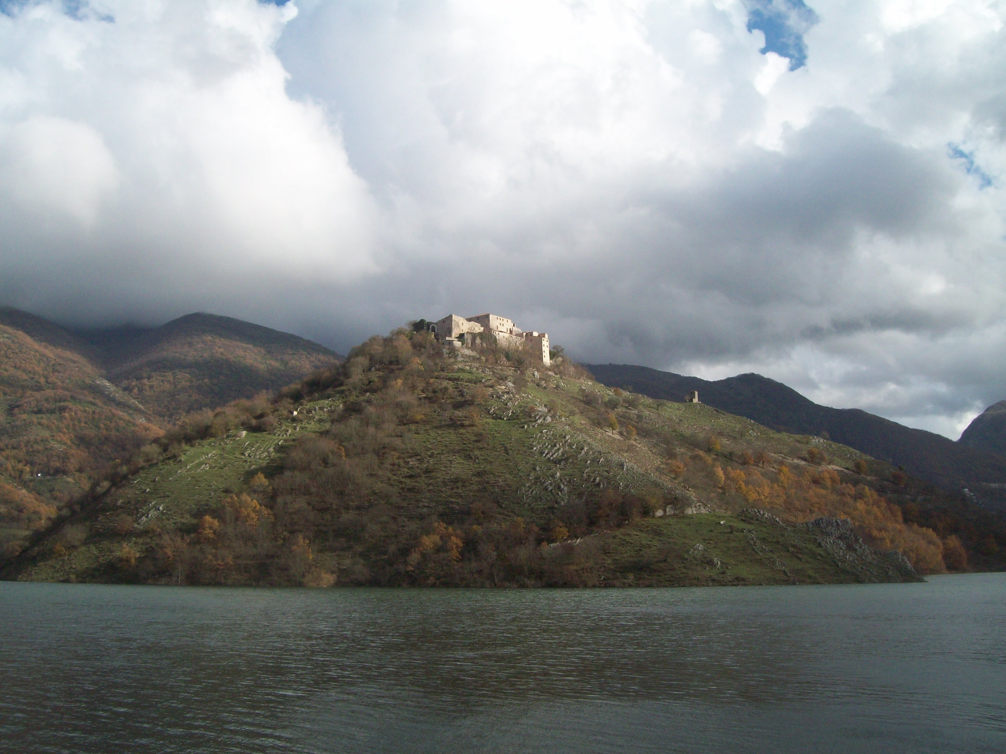 Antuni, Castel di Tora, Latium, Italy